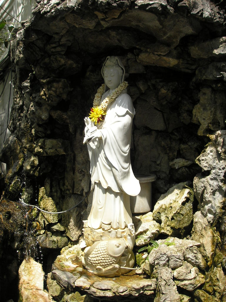 The goddess of mercy kuanyin dispensing water, at the Thean Hou Temple, Kuala Lumpur.